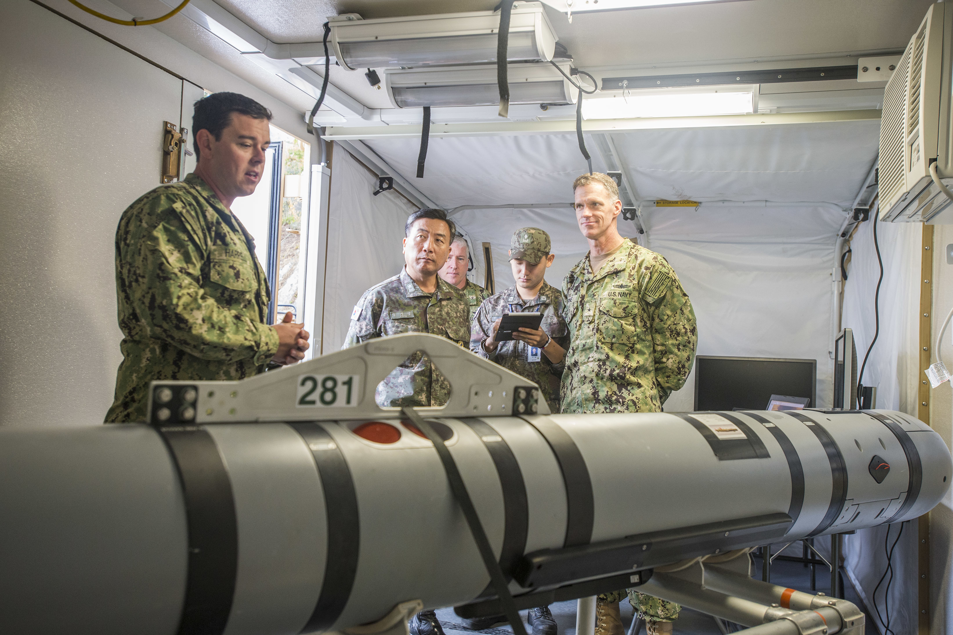 151112-N-CN059-010 CHINHAE (Nov. 12, 2015) Mineman 1st Class Thomas Harrell, left, assigned to Explosive Ordnance Disposal Mobile Unit (EODMU) 5, discusses the capabilities and mission of the MK 18 MOD 2 Underwater Unmanned Vehicle (UUV) to Rear Adm. Bill Byrne, commander, U.S. Naval Forces Korea, during Exercise Clear Horizon on Commander Fleet Activities Chinhae. Exercise Clear Horizon is an annual bilateral exercise between the U.S. and Republic of Korea navies that focus on increasing capabilities and coordination between ships, and aircraft in mine countermeasures in international waters surrounding the Korean peninsula.